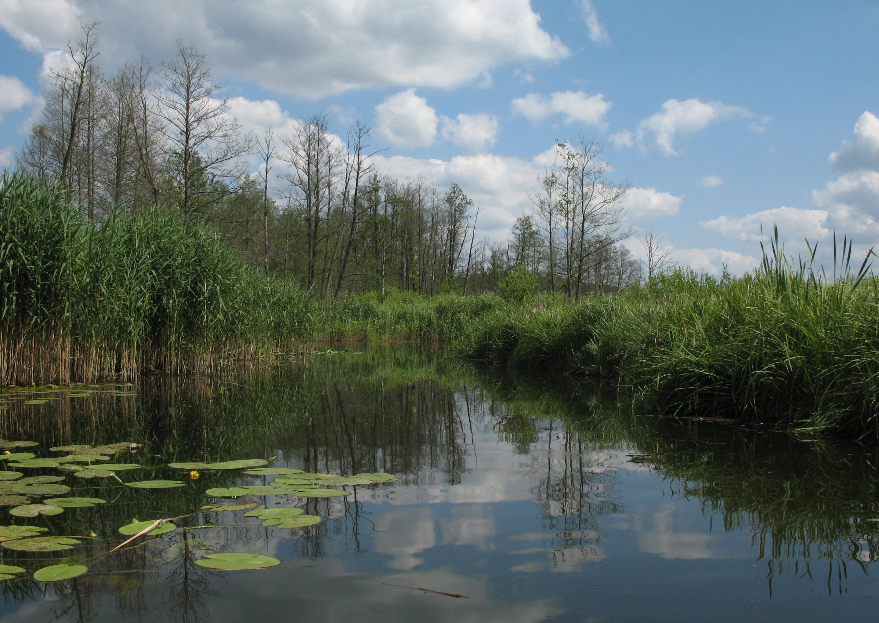 Stream "Tornowfließ" near Fürstenberg-Tornow in Brandenburg, Germany